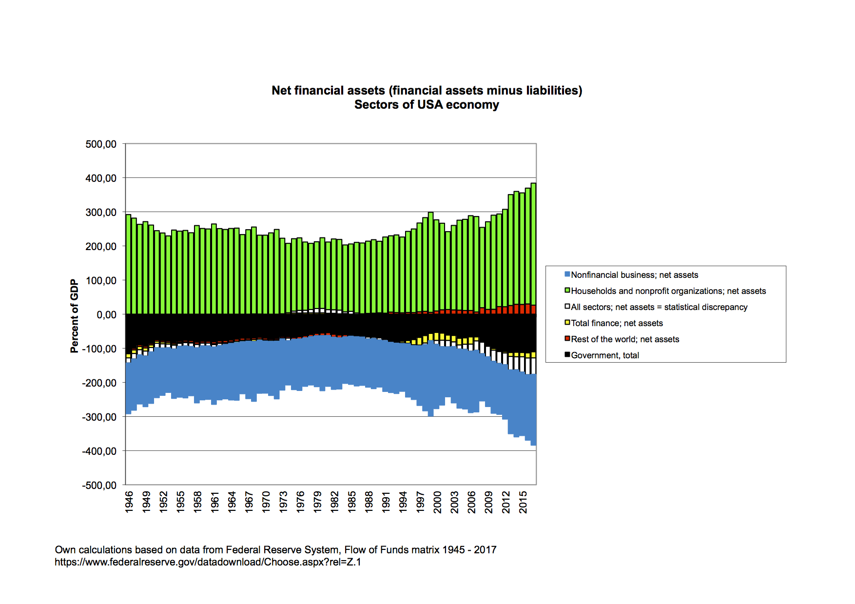 Net financial assets (financial assets minus liabilities), sectors of USA economy, 1945-2009